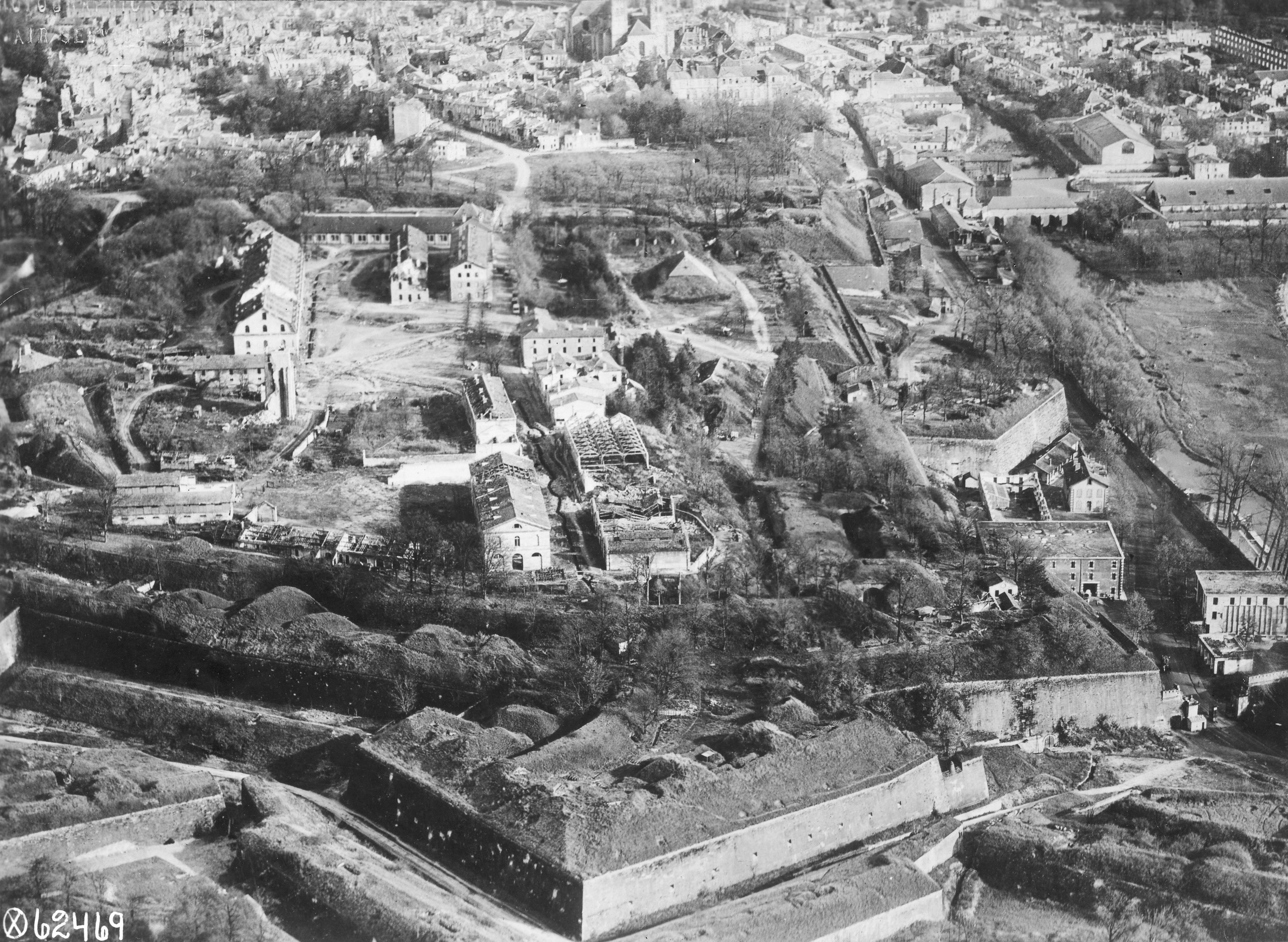 Aerial Photographs of the Western Front Aerial photograph of Verdun.